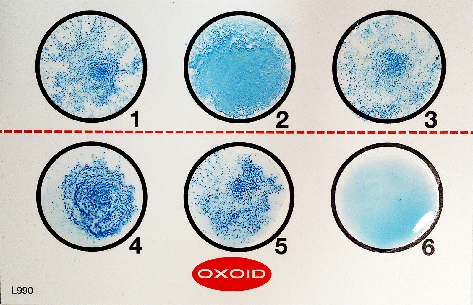 Latex slide agglutination test for the differentiation of Staphylococcus aureus from others Staphylococci. The kit uses blue latex particles coated with porcine fibrinogen and rabbit IgG including specific polyclonal antibodies raised against capsular polysaccharides of Staphylococcus aureus. A positive result is observed for samples 1-5, the negative sample No. 6.